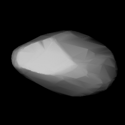 3D convex shape model of 6070 Rheinland, computed using light curve inversion techniques. J. Hanuš, J. Ďurech, M. Brož, B. D. Warner (June 2011). "A study of asteroid pole-latitude distribution based on an extended set of shape models derived by the lightcurve inversion method". Astronomy and Astrophysics 530: A134. ISSN 0004-6361. arXiv